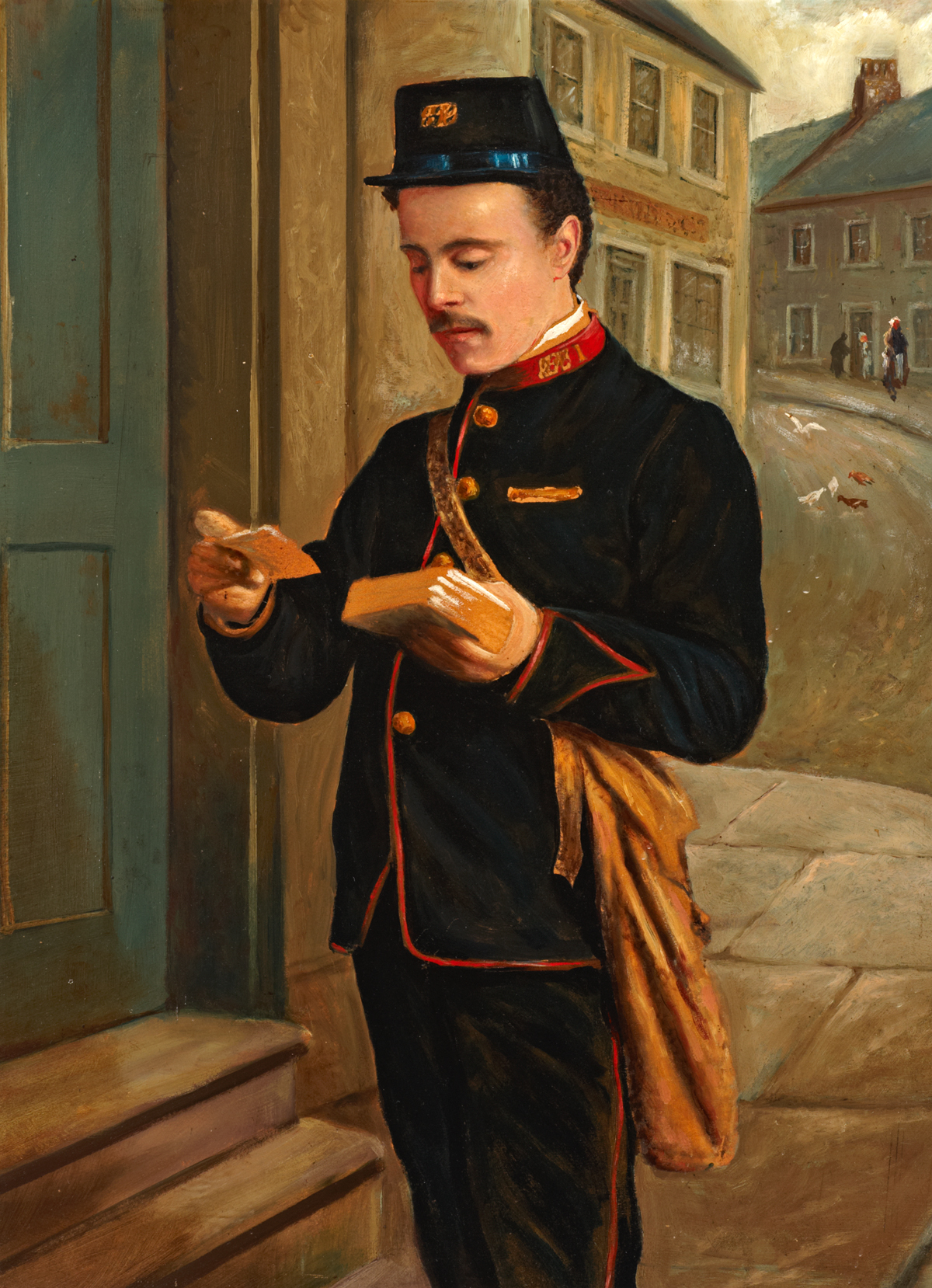 Portrait of a Postman (Alex Buchanan)